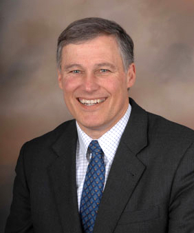 Congressman Jay Inslee (D-WA)